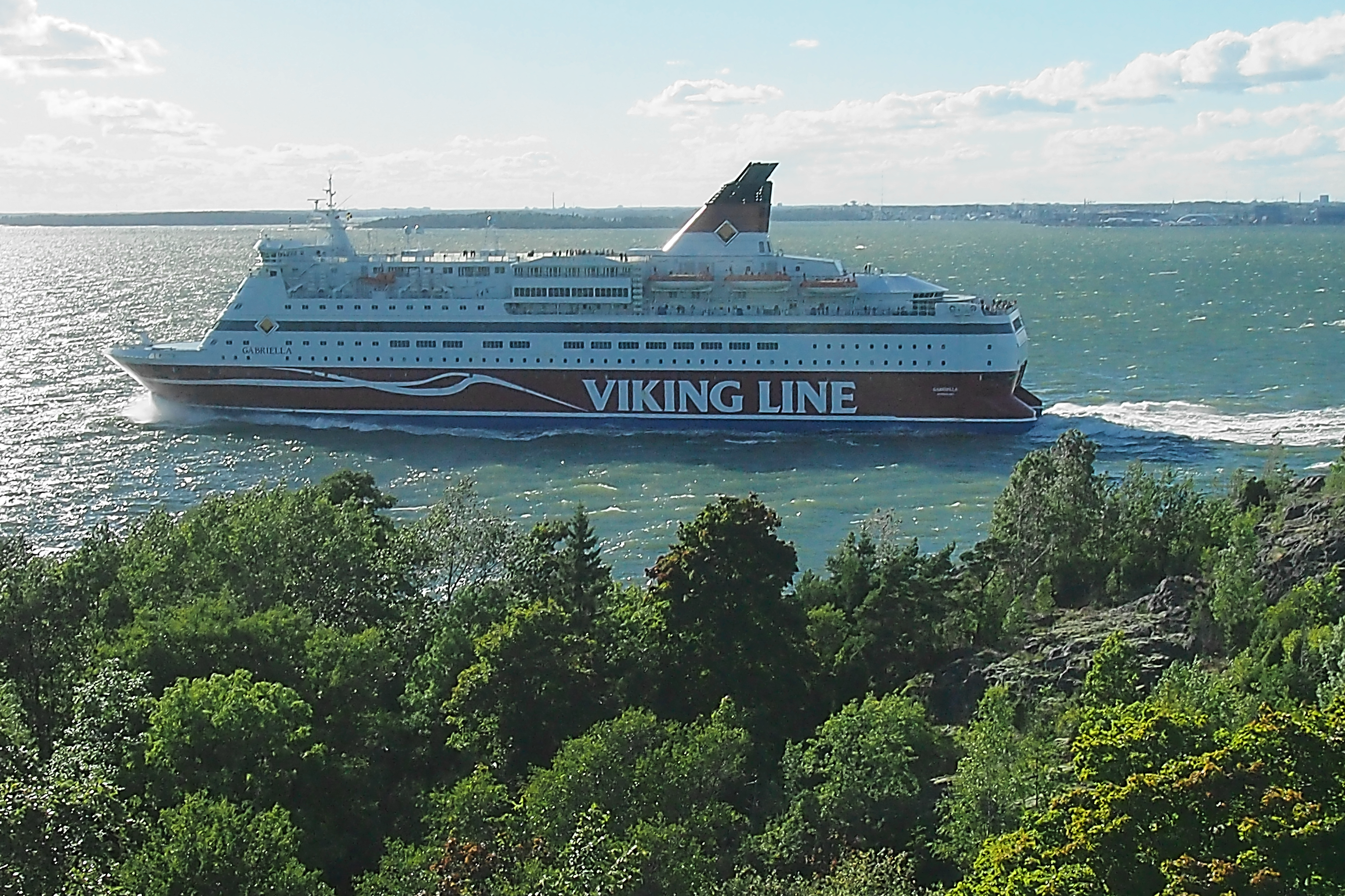 The Viking Line ferry Gabriella leaving Helsinki for Stockholm. Near Suomenlinna. Summer of 2016.